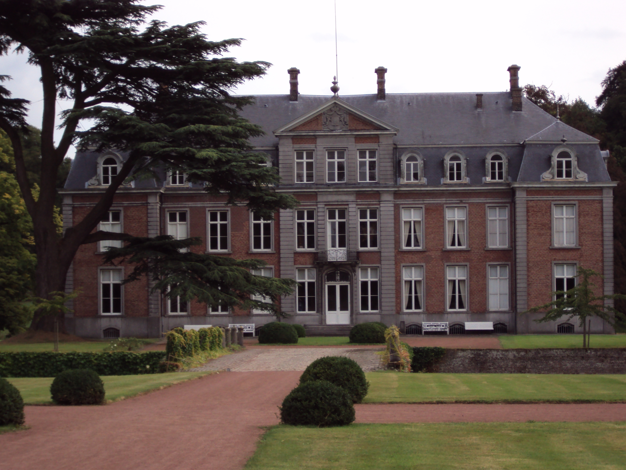 Kasteel "Ten Bieze" te Beerlegem.